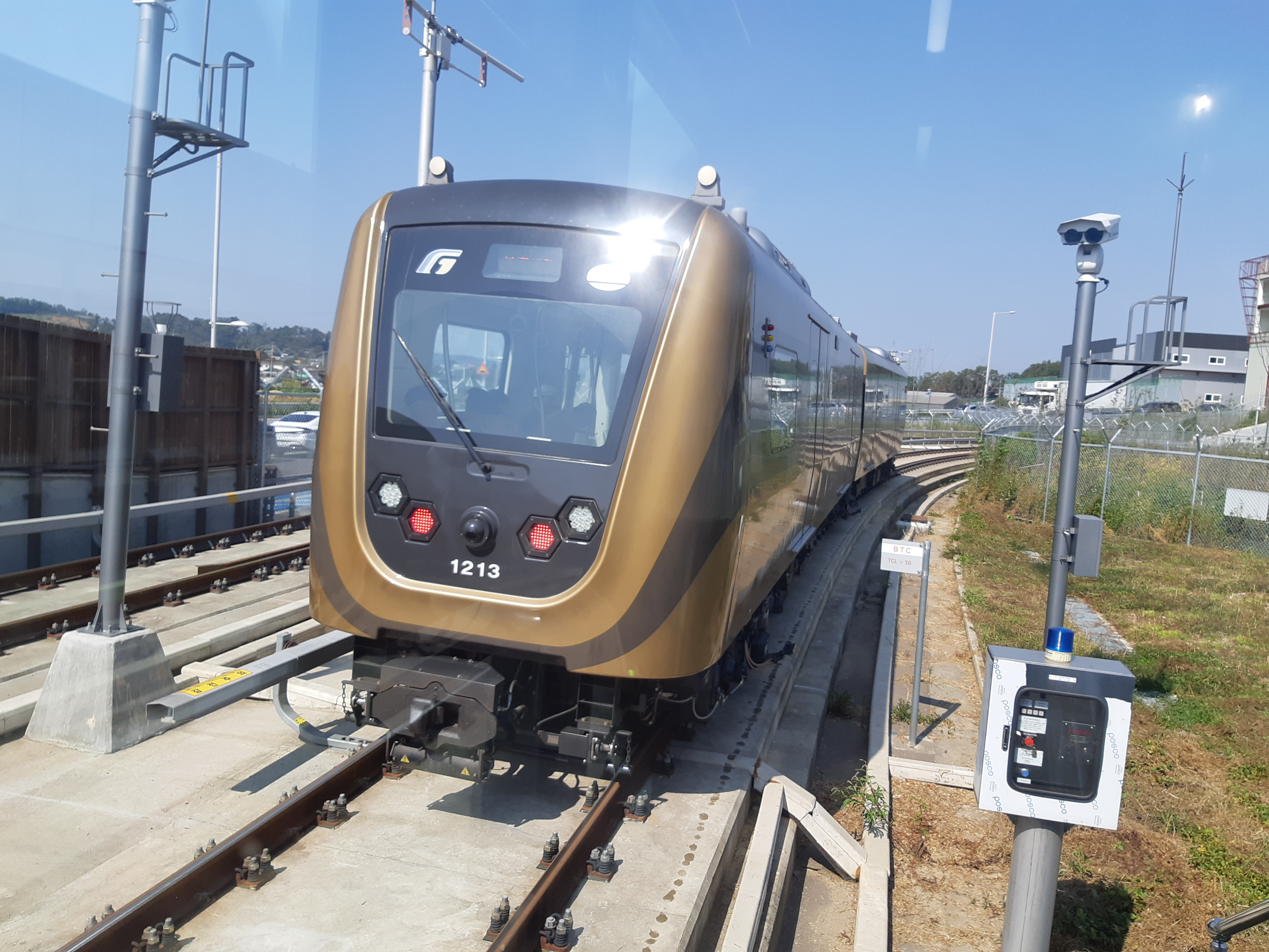 A train unit on the Gimpo Goldline, South Korea